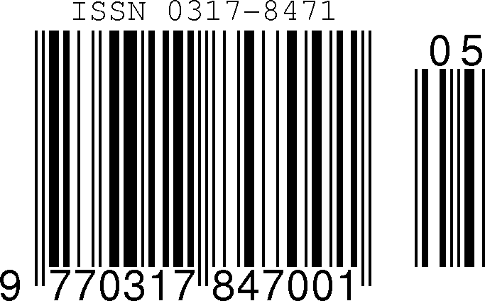 Barcode for ISSN 0317-8471 with sequence variant 0 and issue number 5.